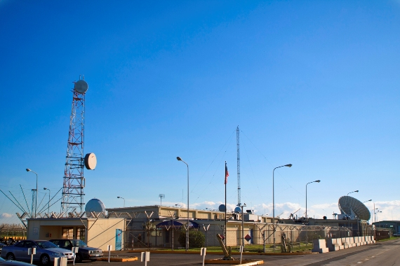 View of the U.S. Naval Radio Transmitter Facility Niscemi, Sicily (Italy). It houses low and high frequency transmitter and antenna systems as well as the Mobile User Objective System (MOUS) ground terminals.